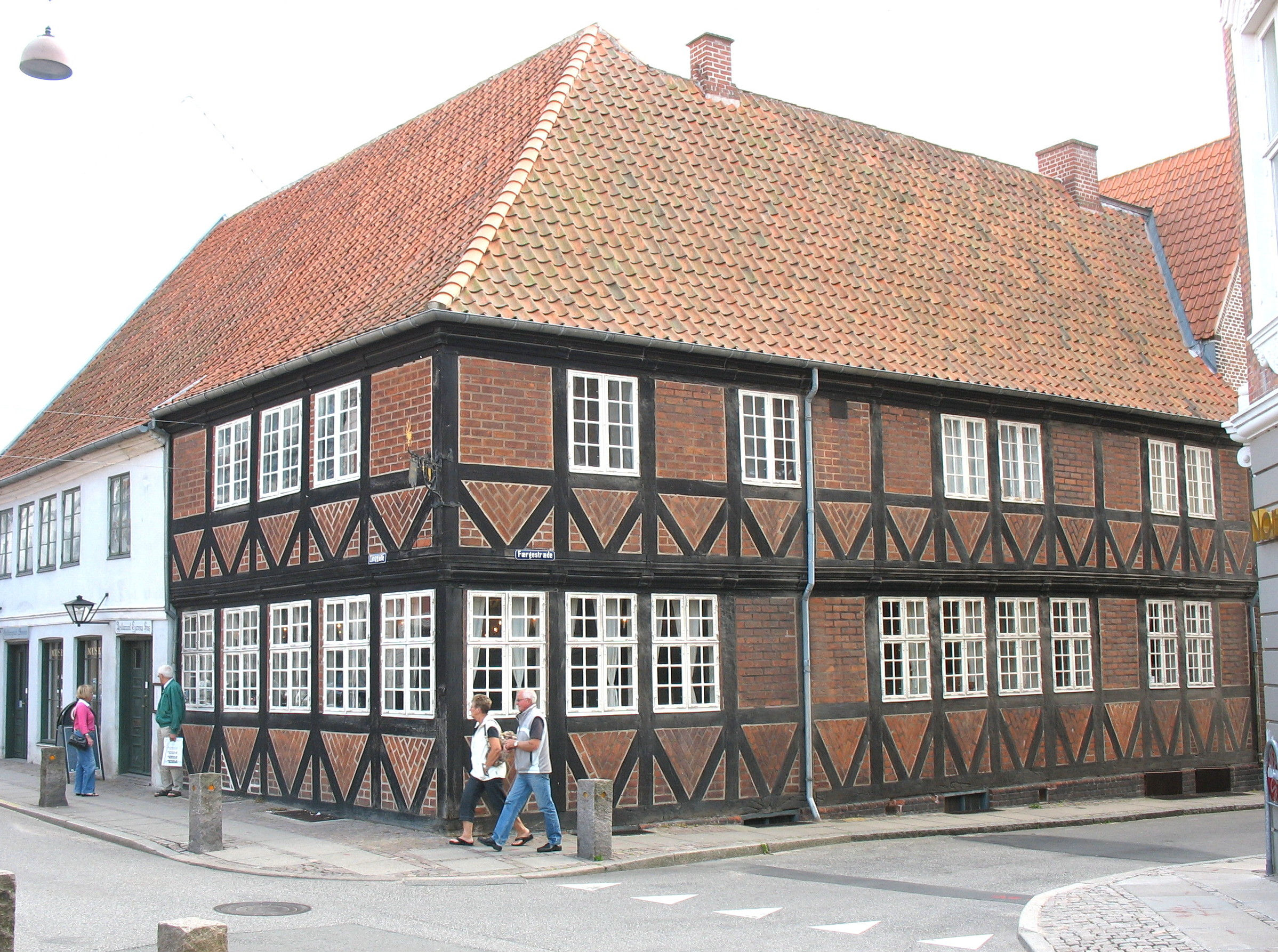 The old tavern "Czarens Hus" in the town "Nykøbing Falster". It is located on the island Falster in east Denmark.